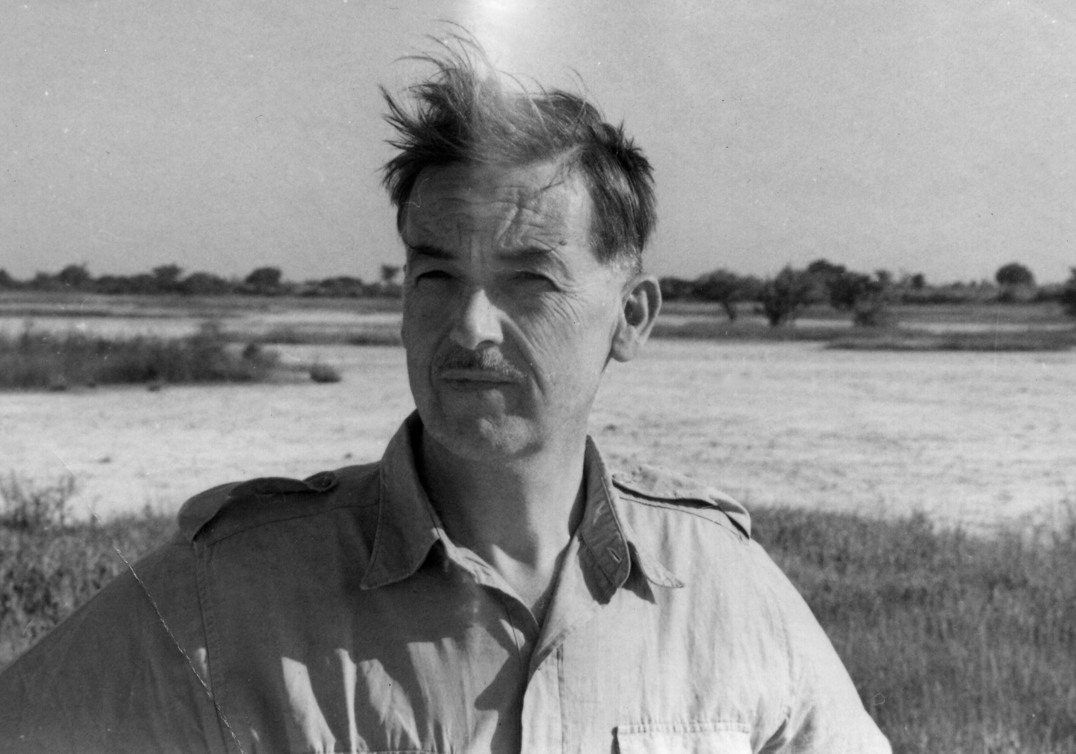 Photo taken in November, 1967